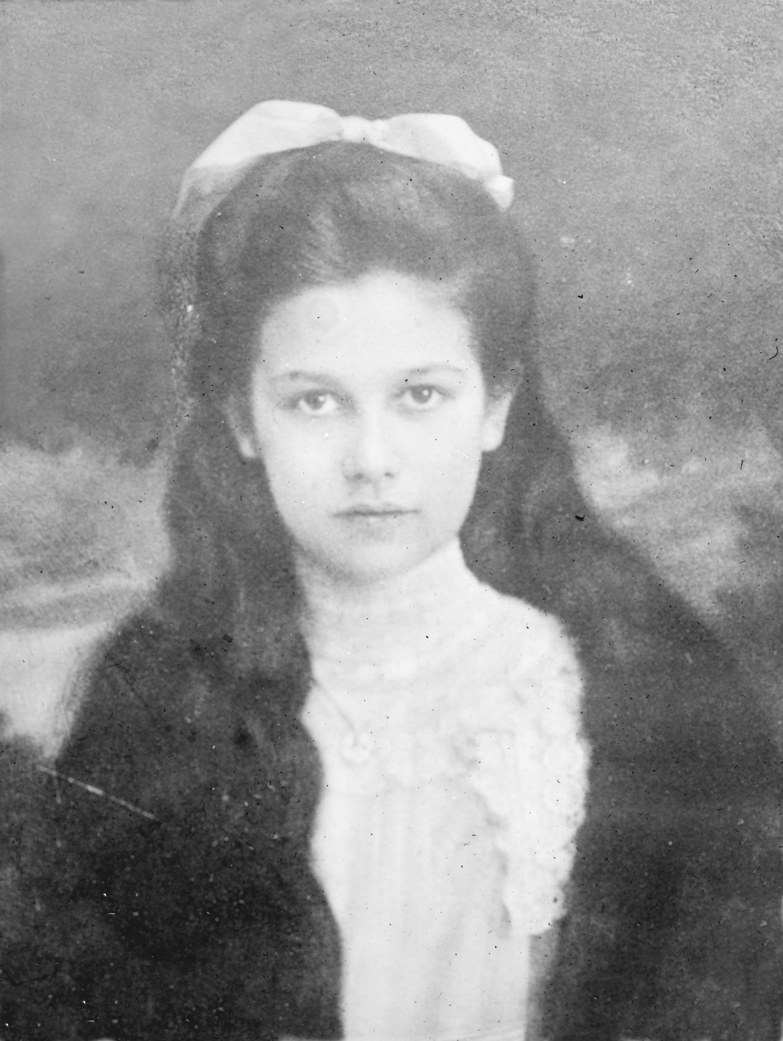 Princess Sophie of Hohenberg